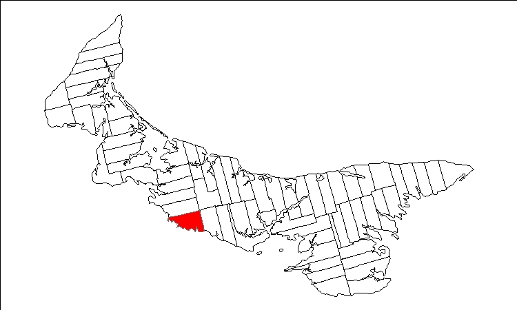 Public domain map of Prince Edward Island created by User:Plasma east with data courtesy of Geogratis, modified to show townships. Released under GFDL (self).